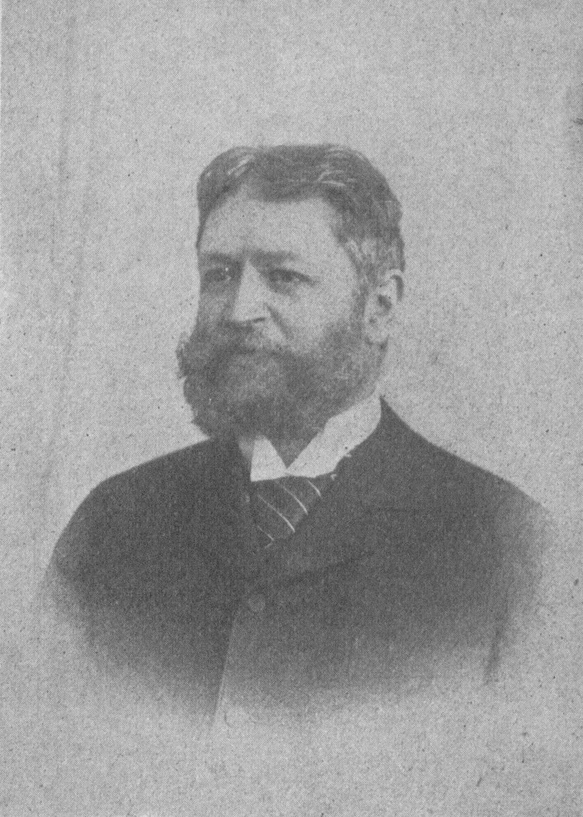 Ludwig Hevesi (1843-1910), Hungarian-Austrian writer and journalist